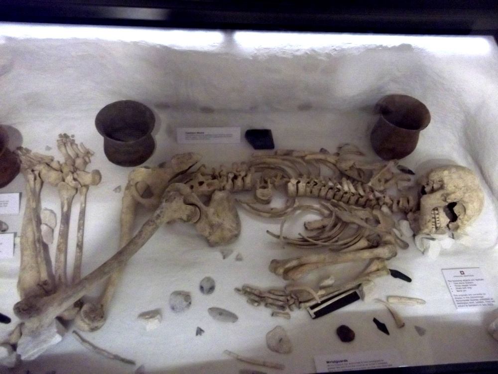 The Amesbury Archer. An early Bronze Age man whose grave was discovered during excavations at the site of a new housing development in Amesbury near Stonehenge. Now on display in the Salisbury and South Wiltshire Museum.